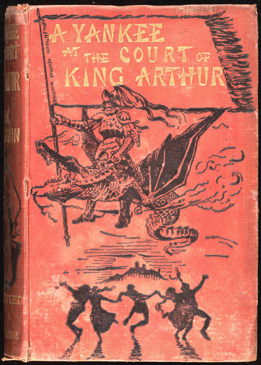 "A Yankee in the Court of King Arthur," cover of the book by Samuel Clemens (Mark Twain), published in 1889 by Chatto & Windus, London. Yale Collection of American Literature, Beinecke Rare Book and Manuscript Library, Yale University, New Haven, Connecticut.